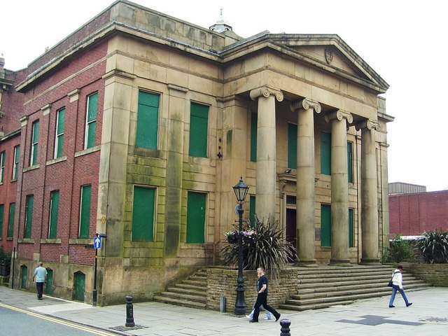 The Old Town Hall, in Oldham, Greater Manchester, England.